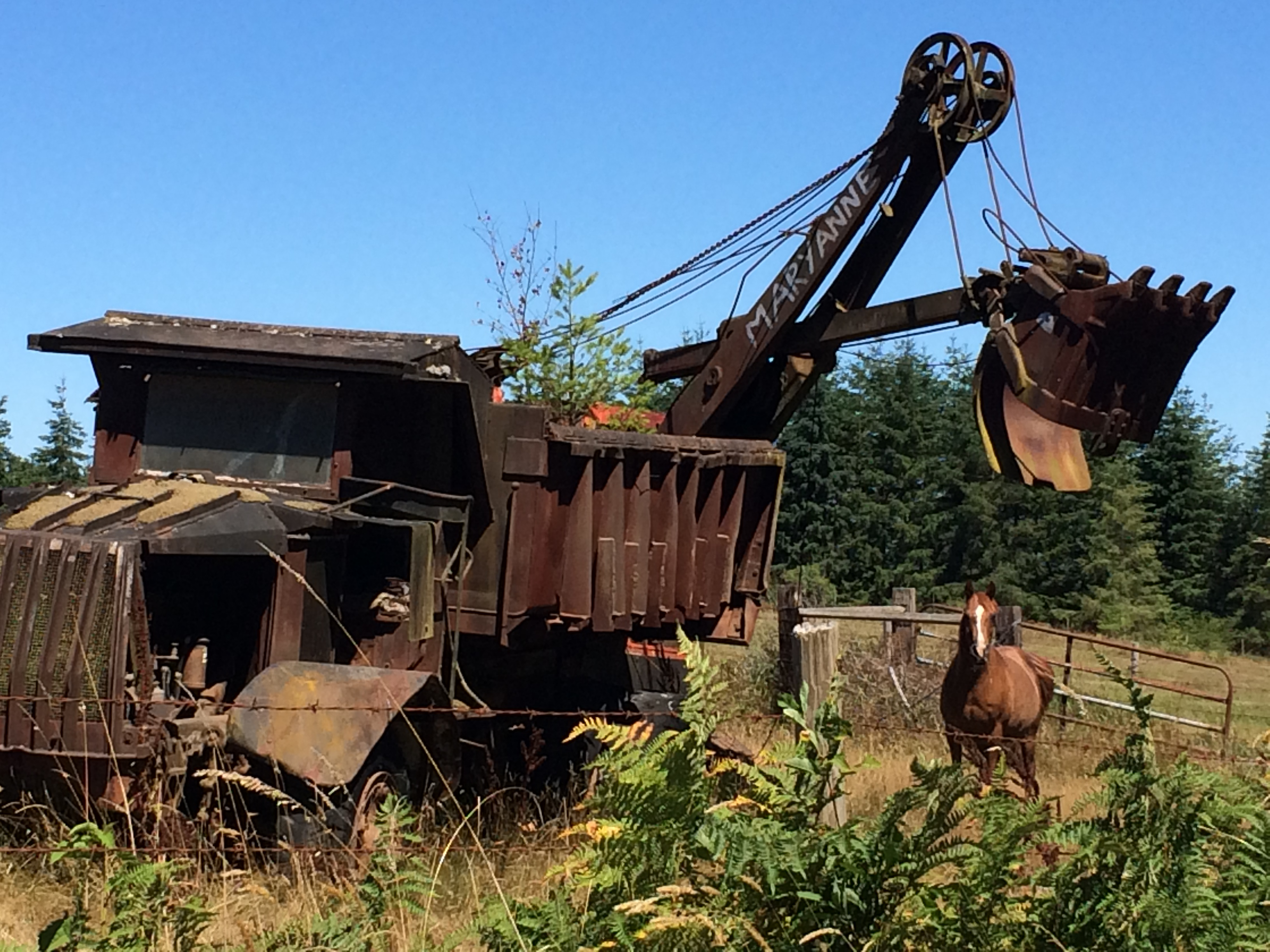 MaryAnne and the Horse